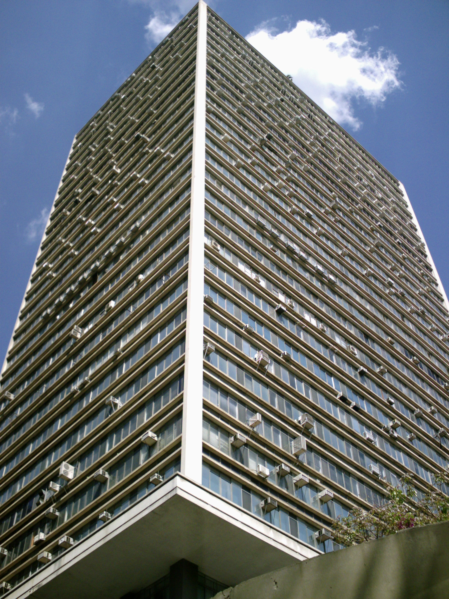 Conde Prates Building